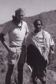 Jon Kalb & Afar Chief, Near Bati, November 1973